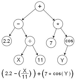 This is an example of a function represented as a Tree data structure used in Genetic Programming. It is based on the image: image:Binary tree.svg.